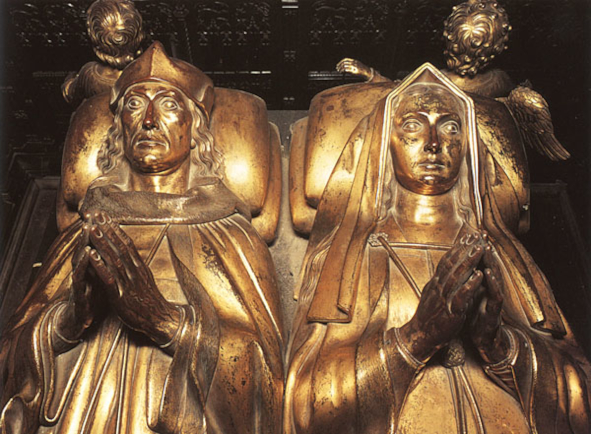 The Statue Gisants of Henry VII and Elizabeth of York